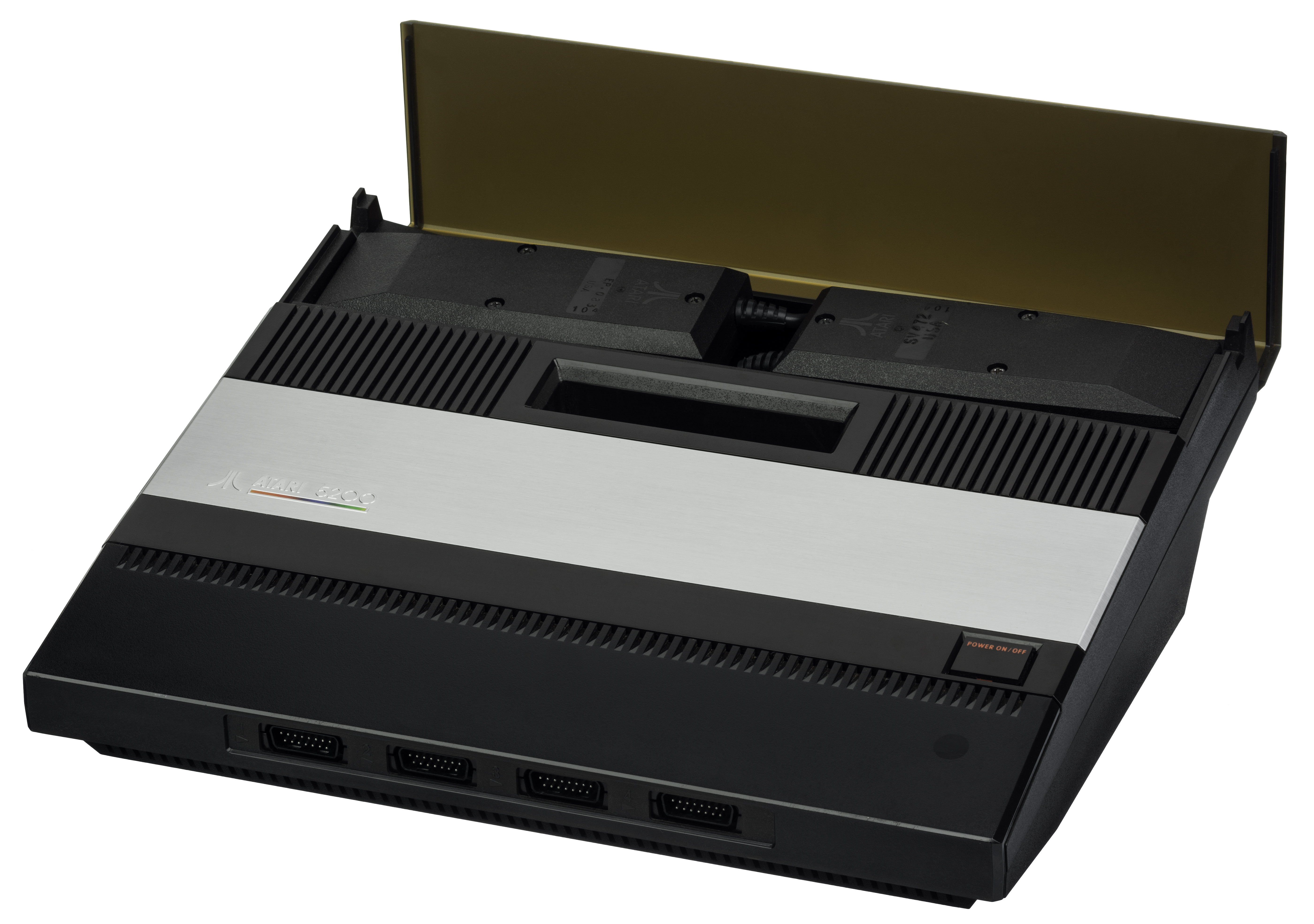 The Atari 5200, a gaming system released by Atari in 1982. The 5200 was Atari's follow-up to the very successful 2600. A larger and more powerful console, it was based on the Atari 8-bit 400/800 computer line. It did not fare well in the market, however, due to Atari's and the gaming market's collapse in 1983. Of note is that this system is an original 4-port version. The system would later be released with only two controller ports. This picture also shows the console's rear controller flap open and with two controller stored inside. The 5200 was huge compared to most gaming systems, and part of that bulk was to hold the controllers inside the unit while not in use.